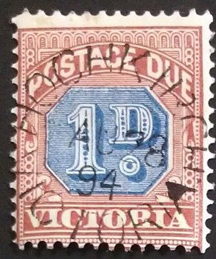 Hochkirch was settled by German immigrants and was renamed Tarrington in 1917 during World War I.